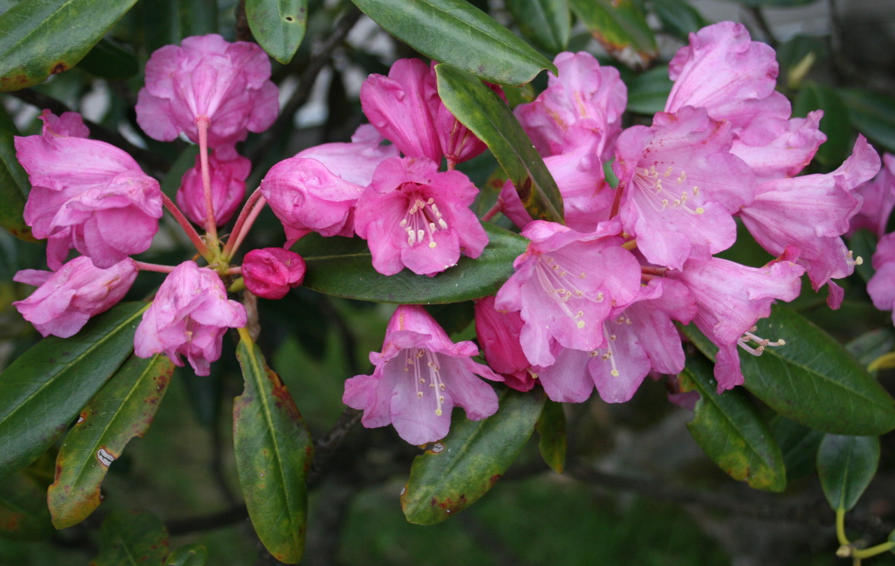 Rhododendron degronianum subsp. heptamerum var. heptamerum (syn. Rhododendron japonoheptamerum), Shakunage in Gozaishodake_2010_6_2